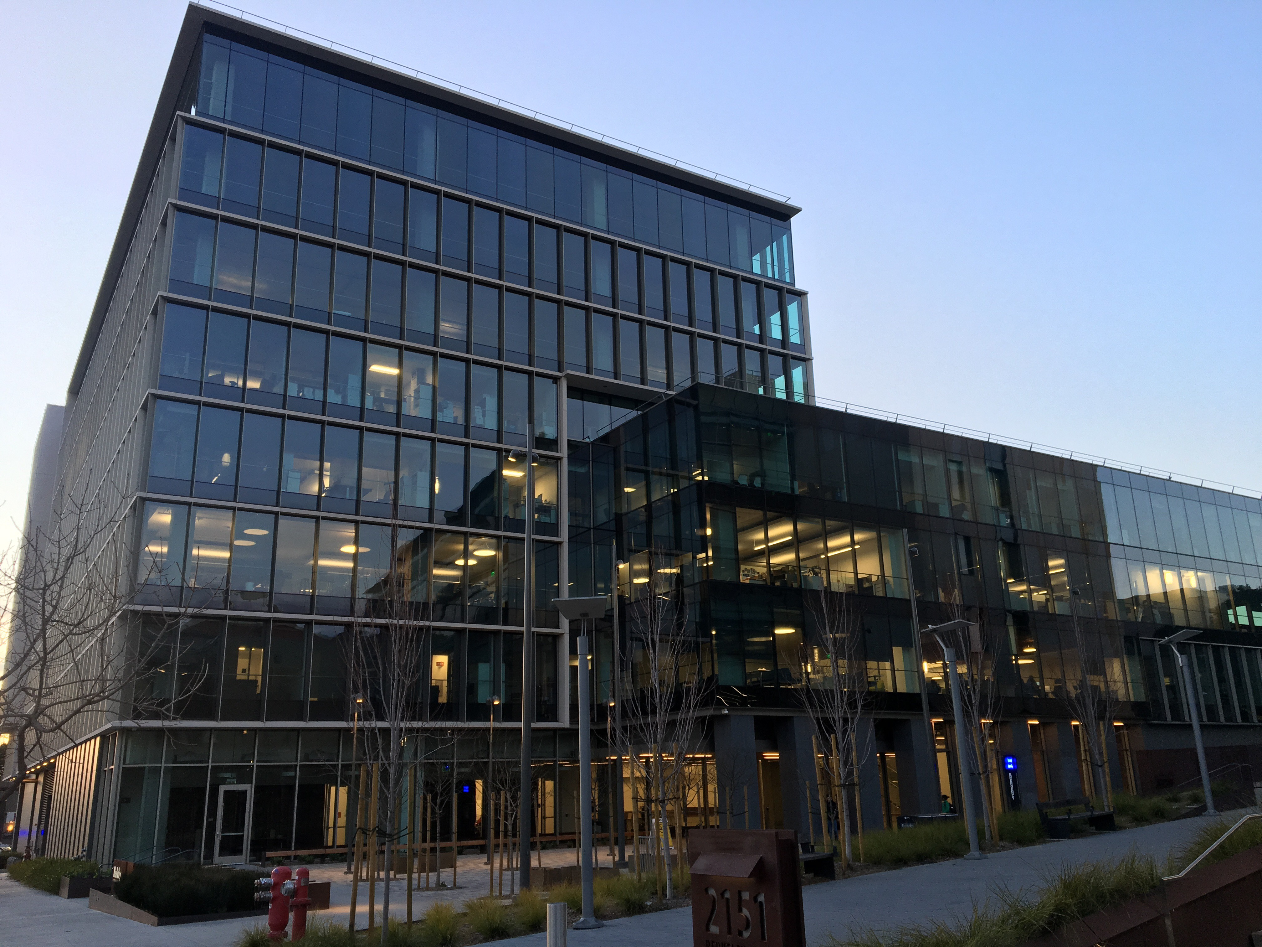 This is a picture of Berkeley Way West, home of the University of California, Berkeley's Graduate School of Education, School of Public Health, and Department of Psychology.